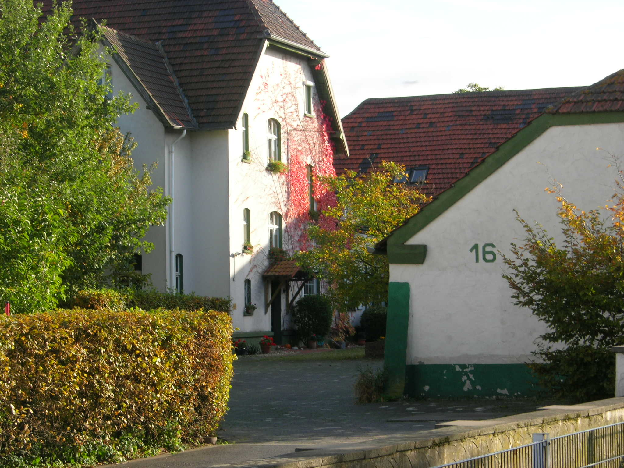 A farmhouse in Massen, part of the city of Unna, Ruhr Area, Germany.